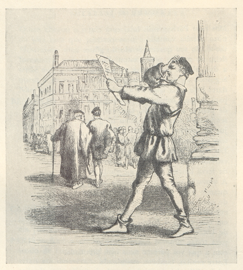 Romeo and Juliet, Act I-Scene_2. A servant of Lord Capulet, attempting to invite to a ball, the people named on a list he cannot read.